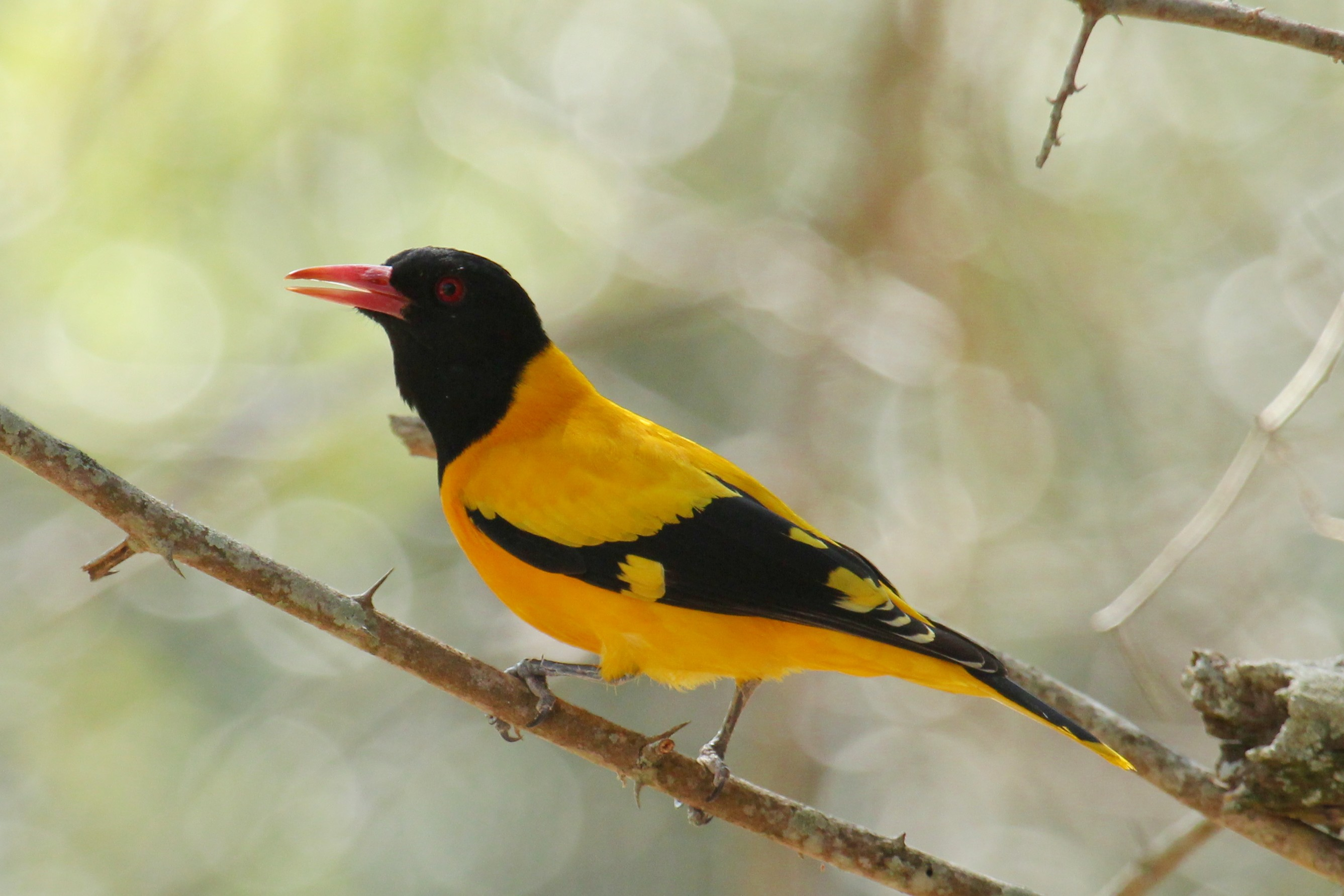 Oriolus xanthornus Birds of India Nature, wildlife 2013